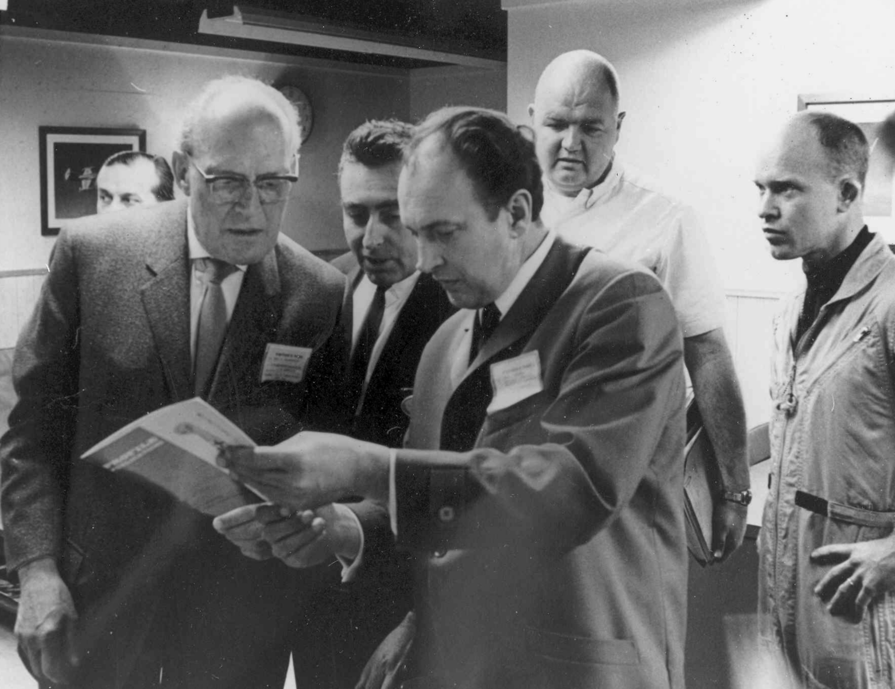 The German aircraft designer Dr. Willi Messerschmitt looking at an issue of the "Profile Publications". The man on the far right is Kenneth Weir.